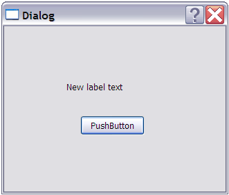 PyQt screenshot